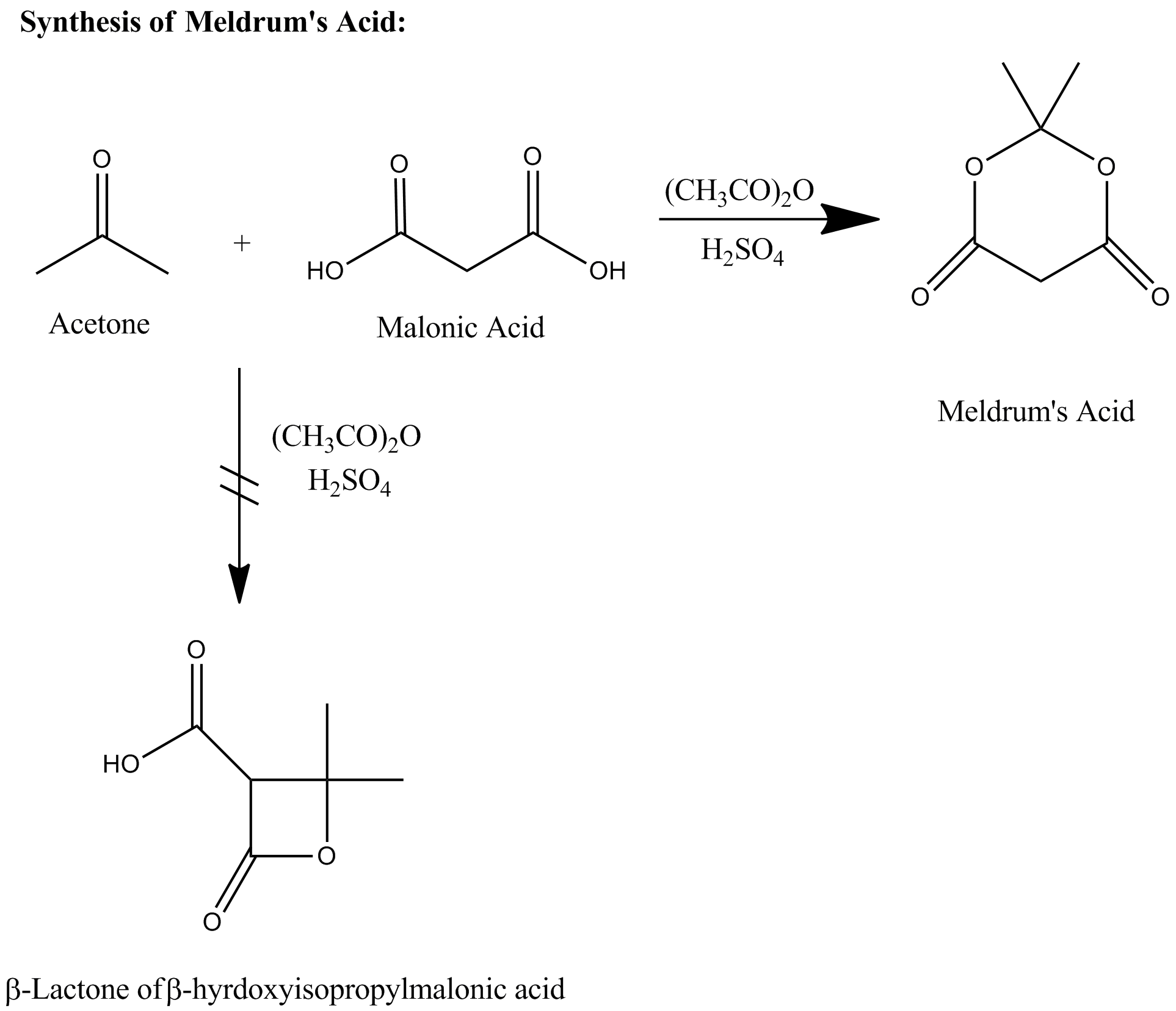 The synthesis of Meldrum's acid from acetone and malonic acid.